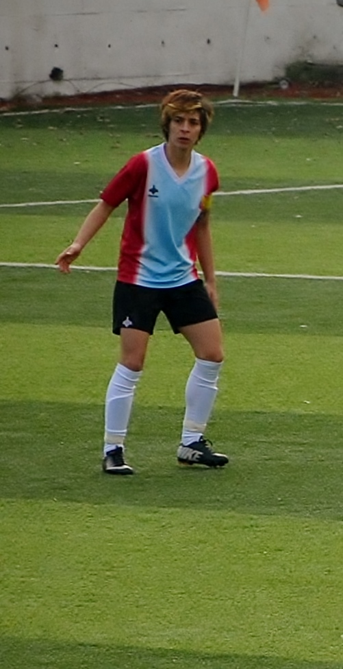 Nagehan Akşan playing for Trabzon İdmanocağı (women) in the 2014-15 wawy match against Ataşehir Belediyespor